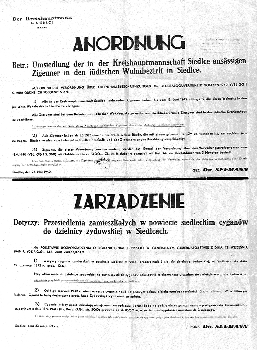 The Nazi occupation authority in Siedlce commands the resettlement of all Gypsies (Roma) living in the county of Siedlce into the local Jewish ghetto. It also commands the wearing of sleeve armbands with the letter "Z" for Zigeuner (Gypsy in German). Those who fail to comply are threatened with penalties. Komentarz: Rozlepiane w formie afisza zarządzenie okupacyjnego starosty siedleckiego jest przykładem realizacji polityki II Rzeszy wobec ludności romskiej. Nakazuje zamieszkującym powiat Romom siedlecki przesiedlenie w okresie trzech tygodni do siedleckiego getta. Getto w Siedlcach, podobnie jak w wielu innych miastach okupowanej Polski, było zamkniętą dzielnicą dla ludności żydowskiej. Mieszkańcy utworzonego w sierpniu 1941 r. getta w Siedlcach żyli stłoczeni w bardzo złych warunkach bytowych i sanitarnych, dziesiątkowani przez choroby i wywożeni do obozu zagłady w Treblince. Ich los podzielili Romowie z całego powiatu, zmuszeni przez władze hitlerowskie do osiedlenia się w gettcie. Siedleckie getto zostało ostatecznie zlikwidowane pod koniec listopada 1942 r., a wszyscy jego mieszkańcy wymordowani w zbiorowych egzekucjach na miejscu lub w obozie zagłady w Treblince. Jak wynika z prezentowanego zarządzenia ludność cygańska, podobnie jak żydowska musiała odróżniać się od reszty społeczeństwa okupowanej Polski i nosić opaski według formy ustalonej przez okupanta. Opis zewnętrzny: Oryginał, druk, jęz. niemiecki, jęz. polski, 1 karta papierowa o wymiarach 42x64 cm, kolor beżowy Miejsce przechowywania: Archiwum Państwowe w Siedlcach; Zbiór afiszów okupacyjnych powiatu siedleckiego; Sygn. 21. Autor komentarza: Grzegorz Welik Autor fotografii: Dariusz Dybciak